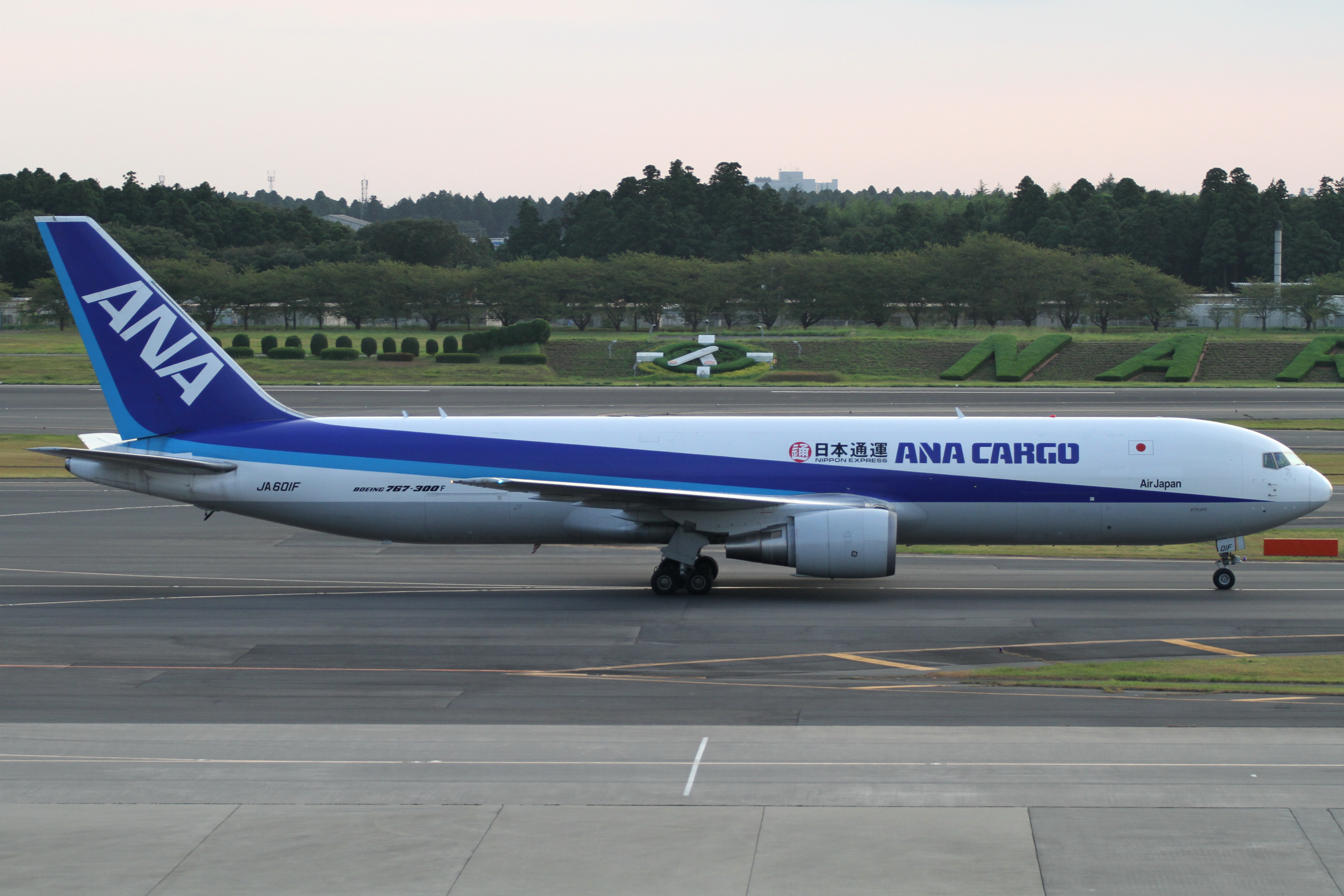 Narita International Airport, Boeing B767-381F, c/n:33404, All Nippon Airways, Operated by Air Japan